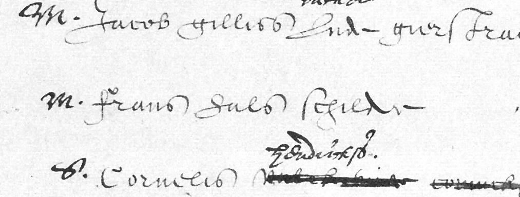 Frans Hals - Excerpt Register van de loffelijcke Schutterij der stadt Haerlem, 1612.